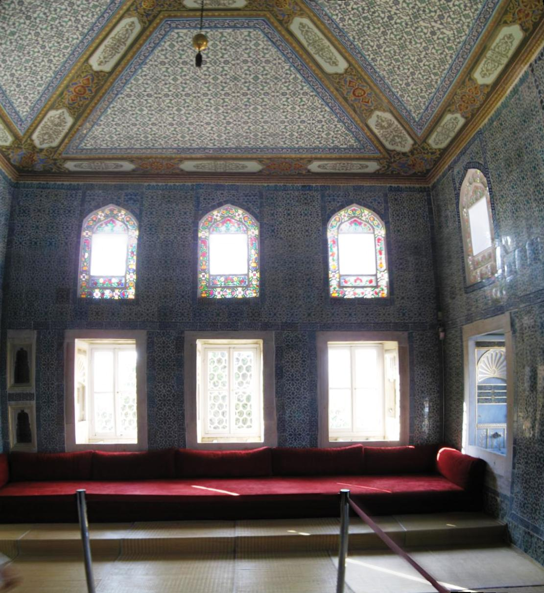 Interior of the Circumcision Room at Topkapi Palace in Istanbul.